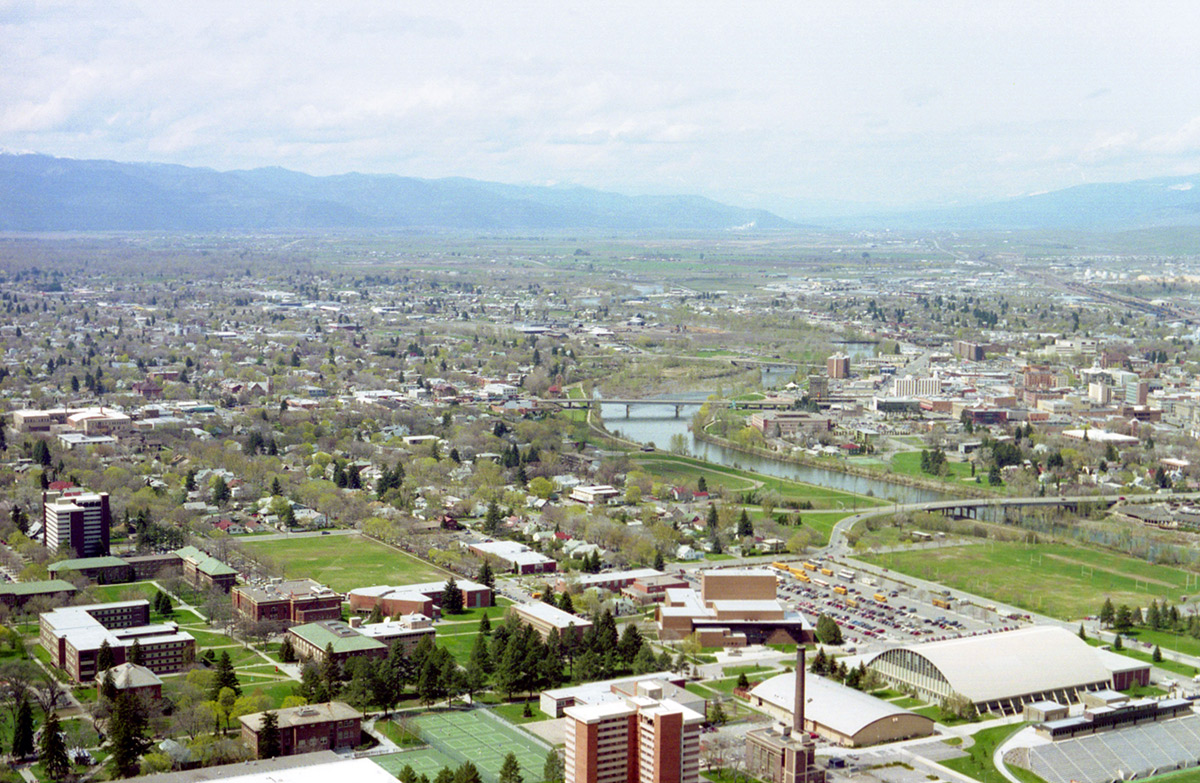 A view of Missoula, Montana, from the hillside